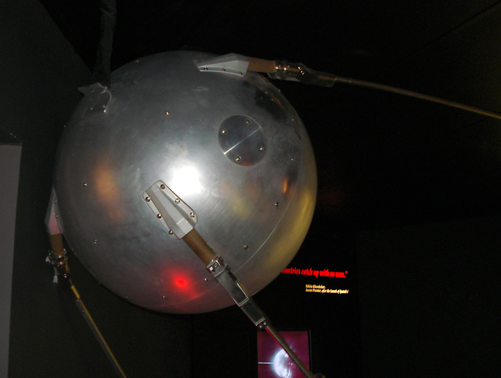 Flight-ready backup of Sputnik 1, on display at the Kansas Cosmosphere in Hutchinson, Kansas.